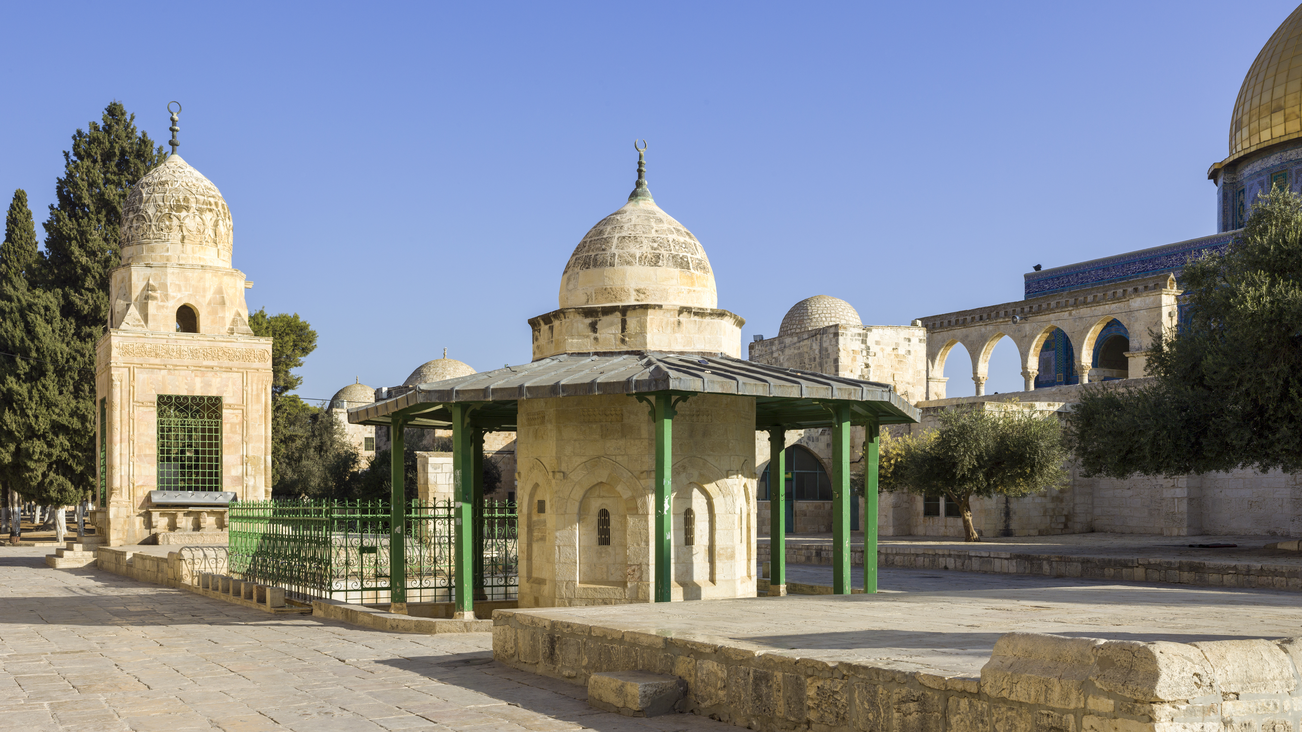 Fountains of Qasim Pasha (center) and Qayt Bay (left) on the Temple Mount in the Old City of Jerusalem.